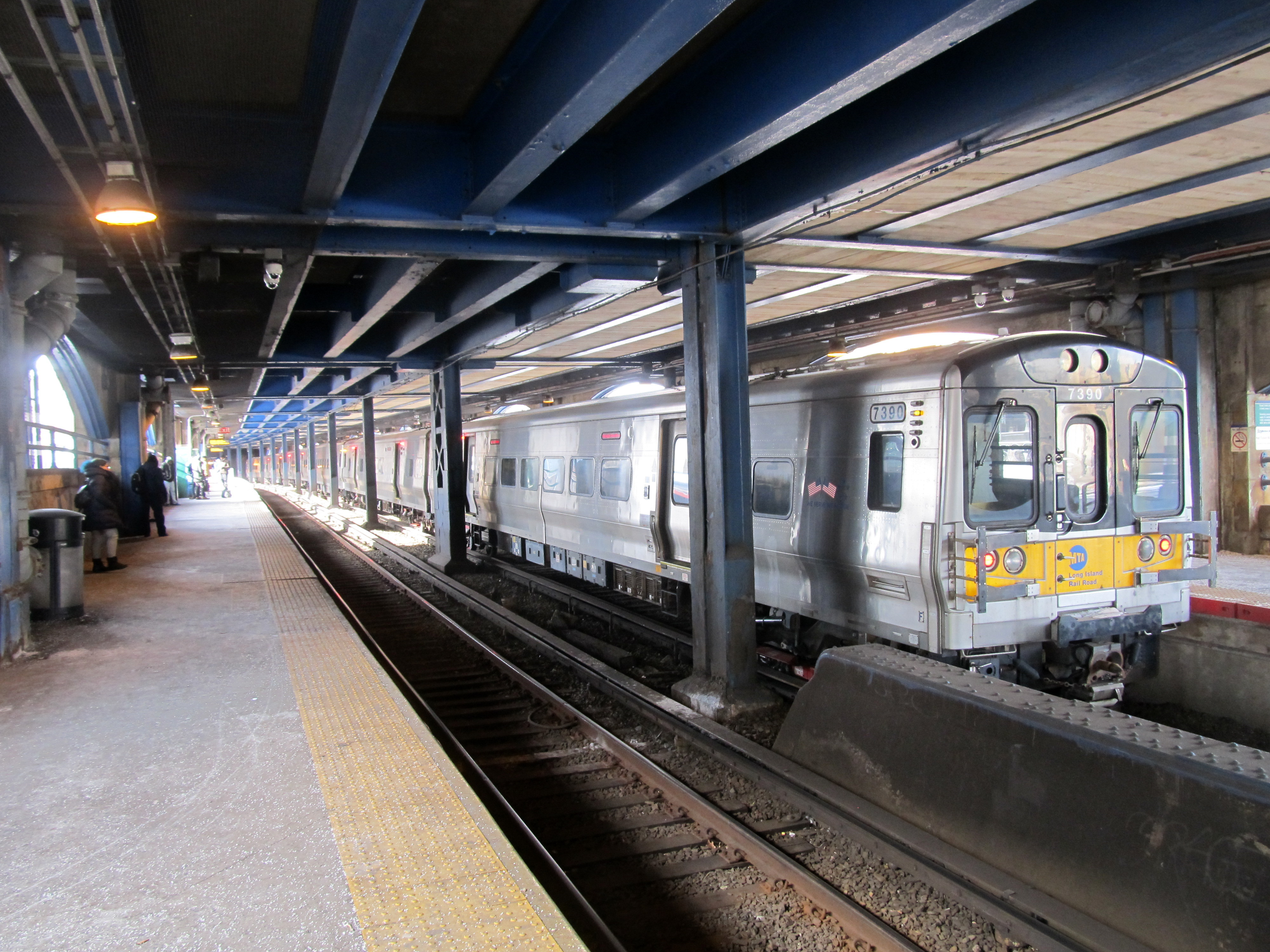 Westbound LIRR train at East New York station in December 2017